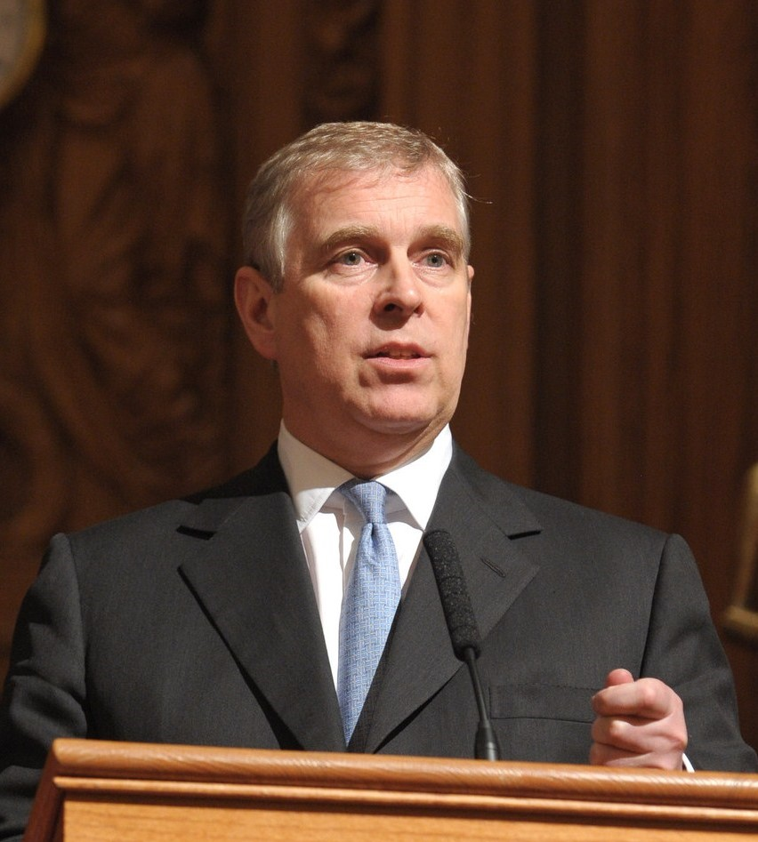 On 29 January 2013, Prince Andrew, the Duke of York, visited Titanic Belfast to talk to over 200 young people from across Northern Ireland who attended an event organised by Cooperation Ireland to celebrate their completion of the first ever National Citizen Service project to be run in Northern Ireland